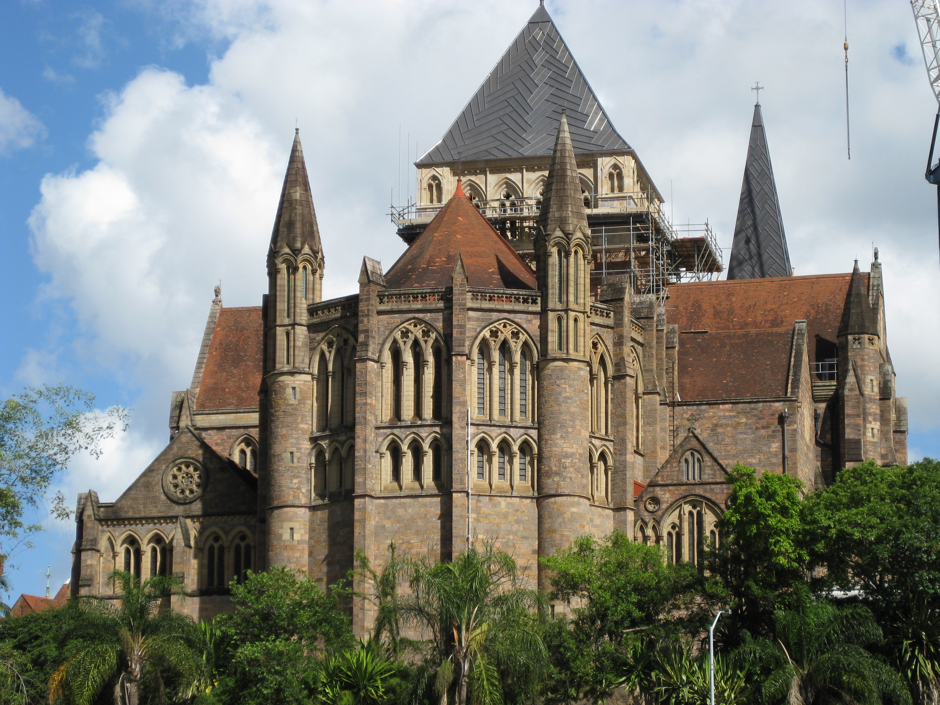 St John's Cathedral Brisbane, view from Eagle Street